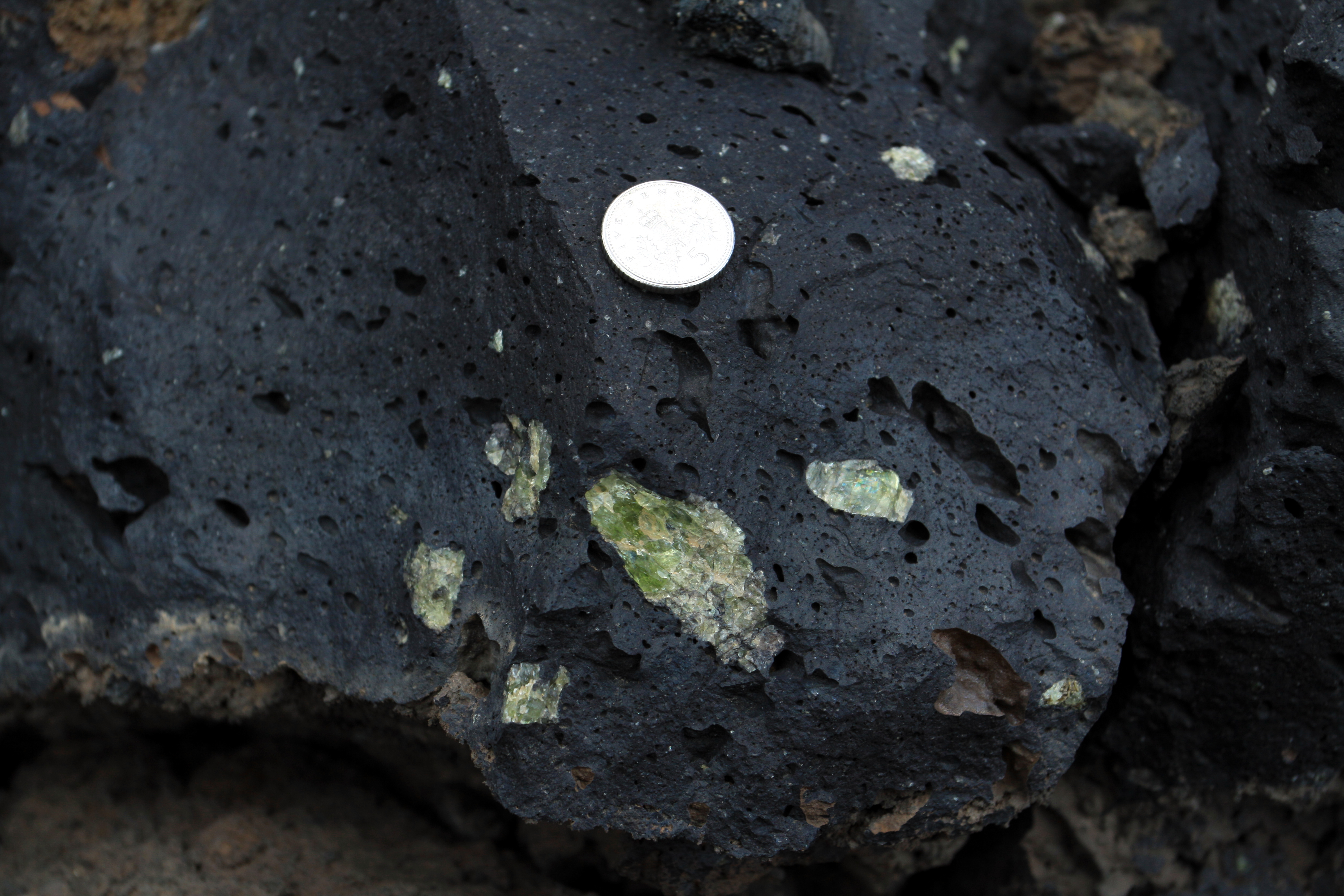 Basaltic lava with large crystals of olivine, image taken on the lava flow close to Hervideros on Lanzarote, The Canary Islands, Spain